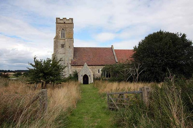 Saint Andrew Parish church, Illington, Norfolk